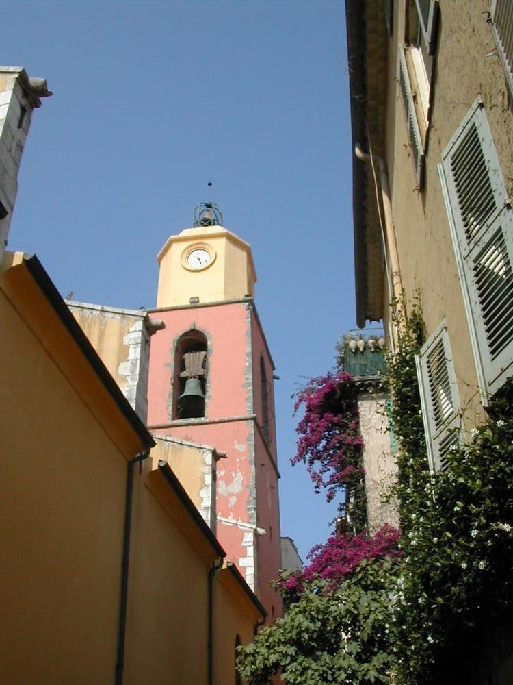 Church of Saint-Tropez, France.